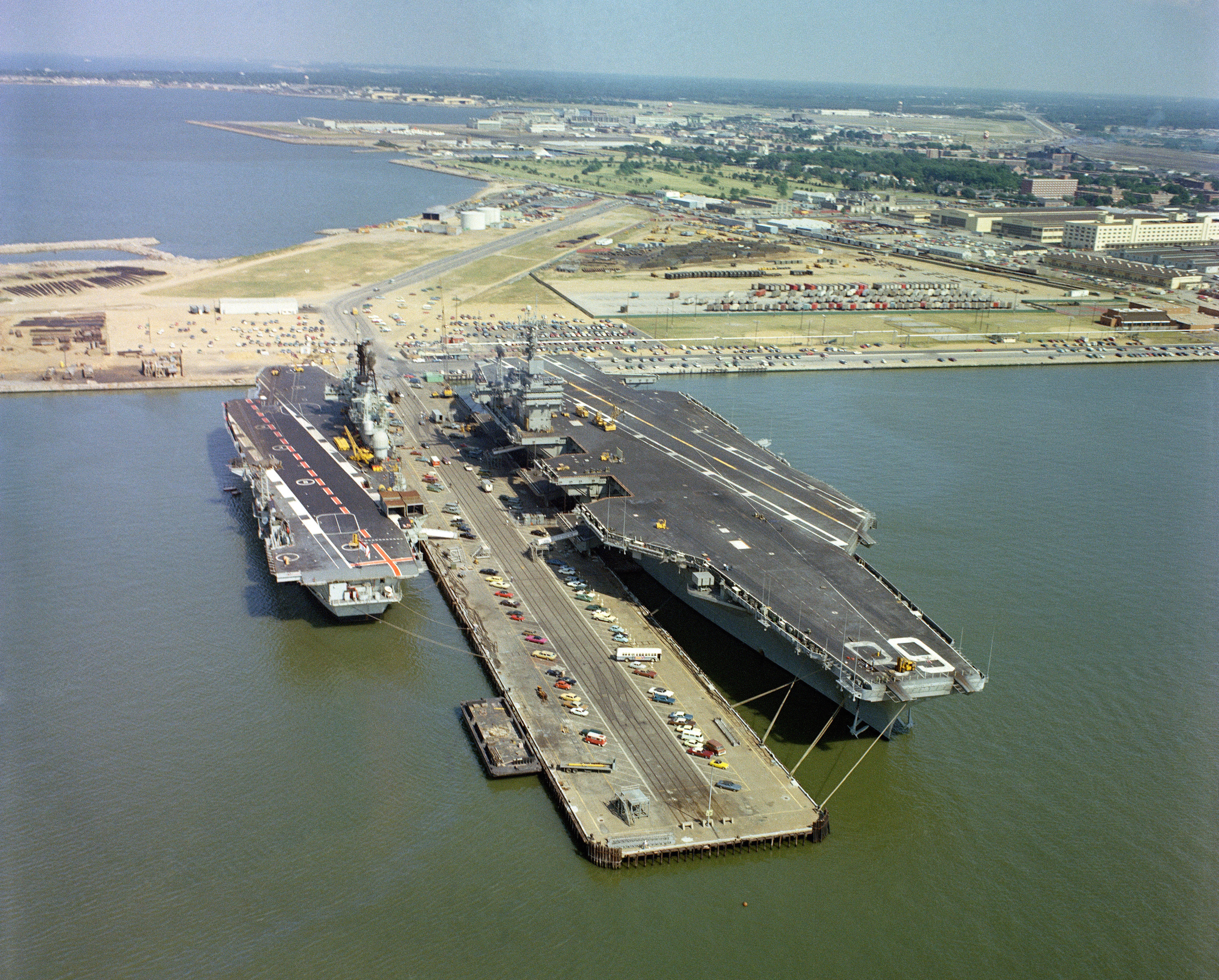 An aerial view of the U.S. nuclear-powered aircraft carrier USS Nimitz (CVN-68) and the British aircraft carrier HMS Ark Royal (R09) tied up at piers at Norfolk Naval Station, Virginia (USA), maybe between 14 and 21 August 1978. Note: The photo may have been taken in 1975 when Ark Royal was having her catapults repaired. Also, Nimitz was having extensive flight deck work in 1978. In the National Archives description, the left hand carrier is wrongly identified as HMS Hermes (R12) on 26 June 1987.